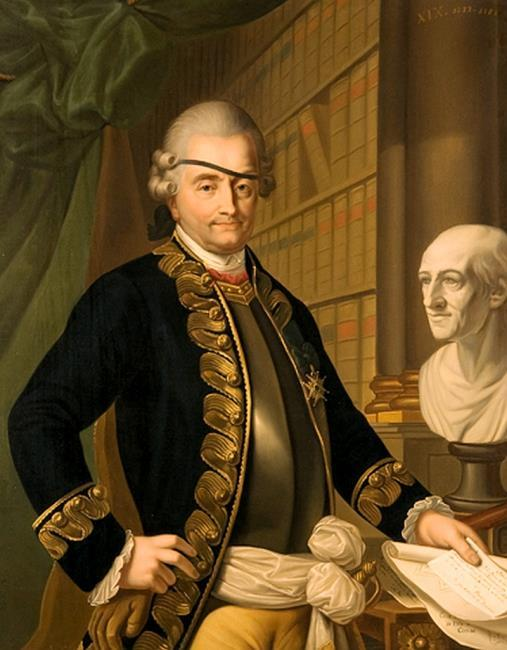 Portret van David Louis de Constant Rebecque (1722-1785)